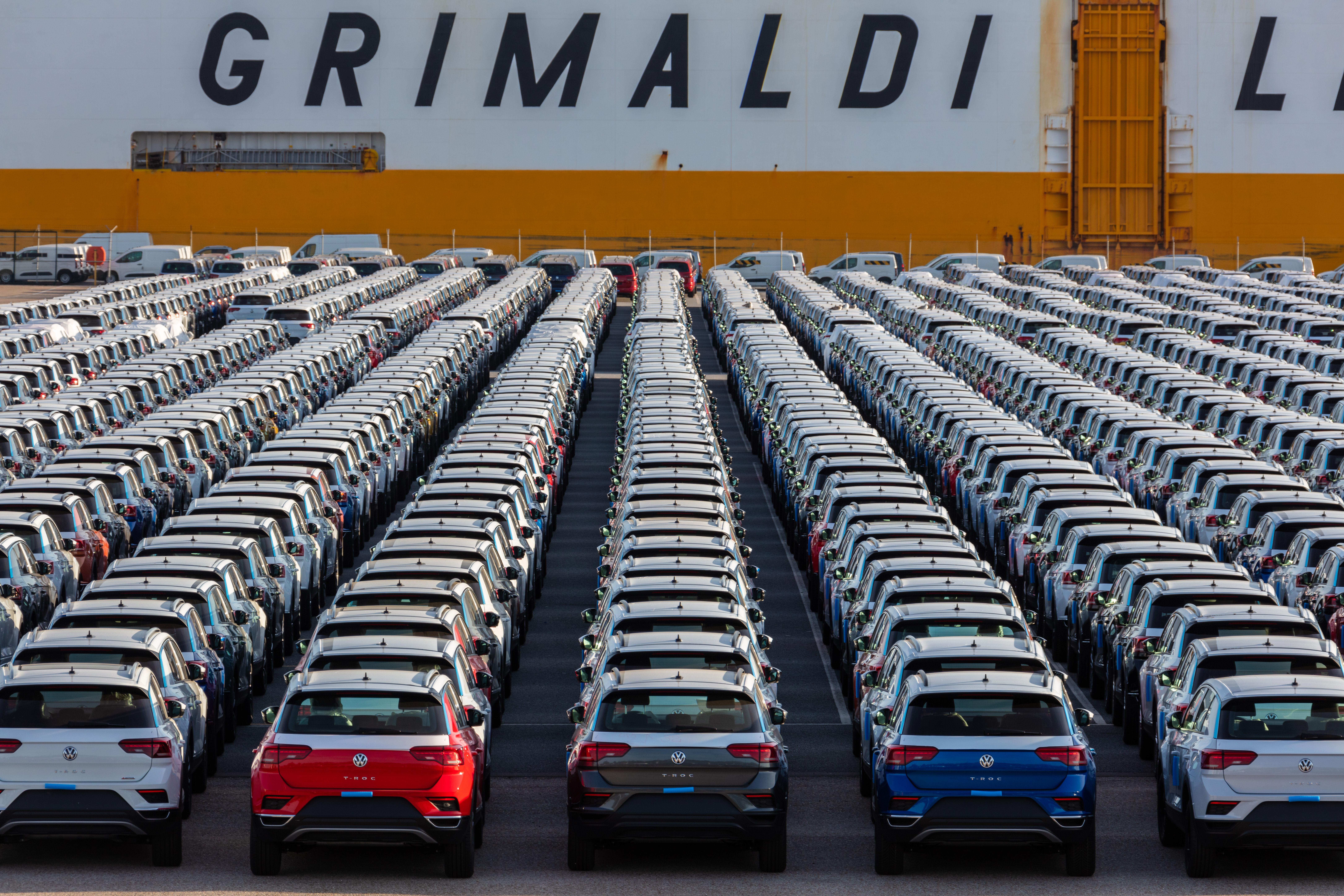 Automobiles in the port of Setúbal, Portugal